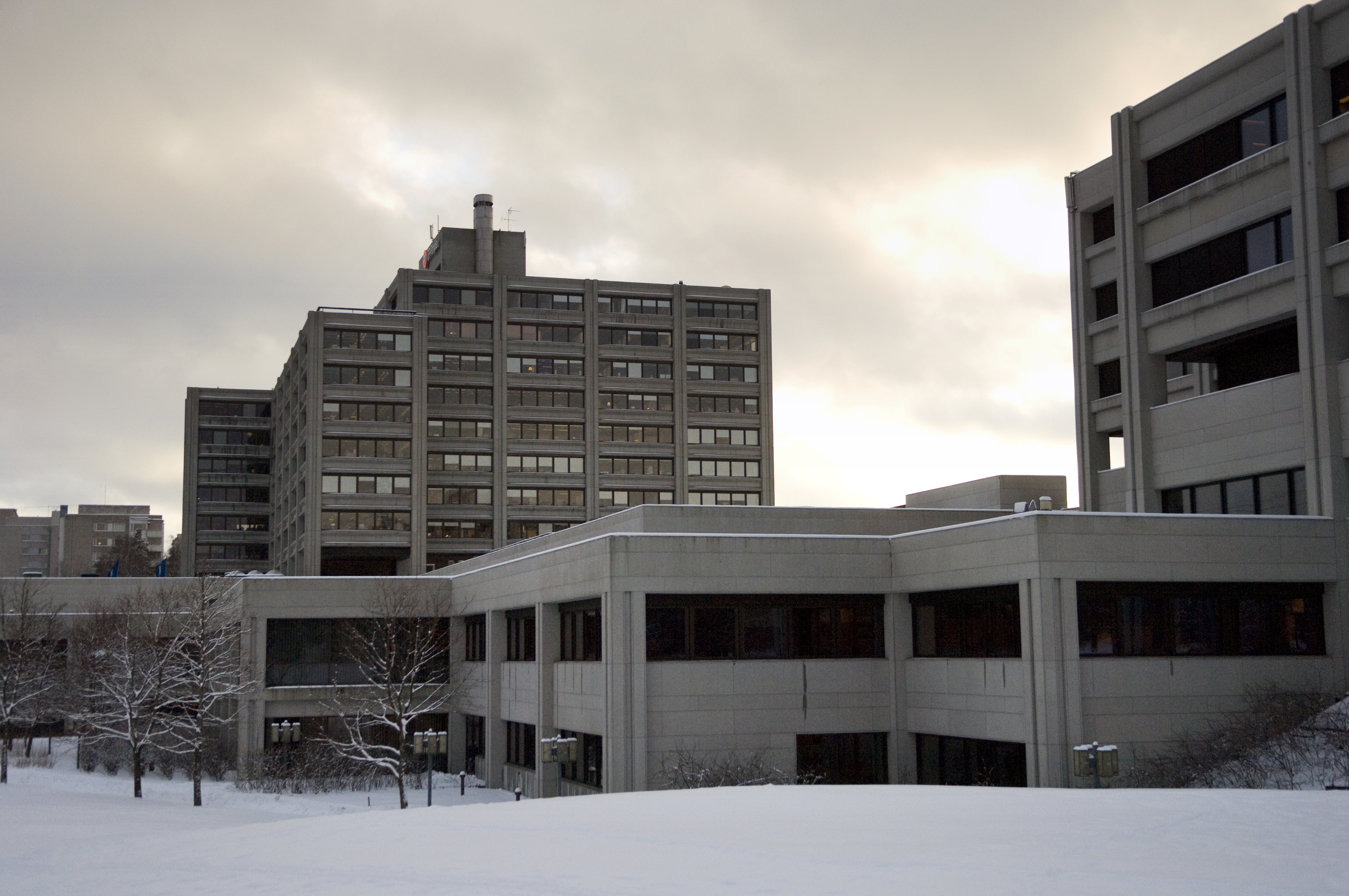 The headquarters of OP-Pohjola Group and the regional headquarters of Sanoma Magazines (a division of Sanoma Group) in Niemenmäki, Helsinki, Finland.